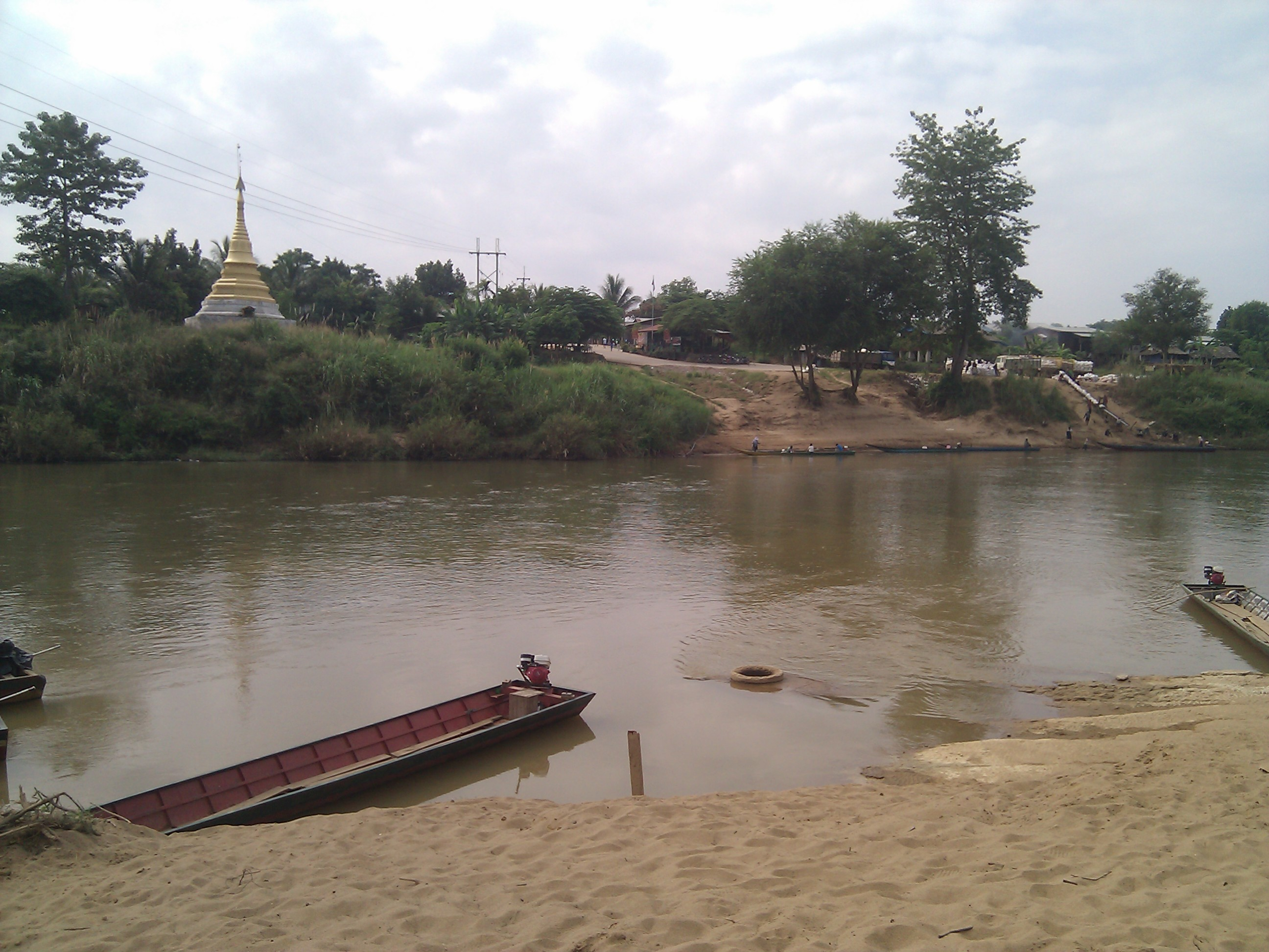 Moei River, shot from Thailand border, look at Myanmar border.